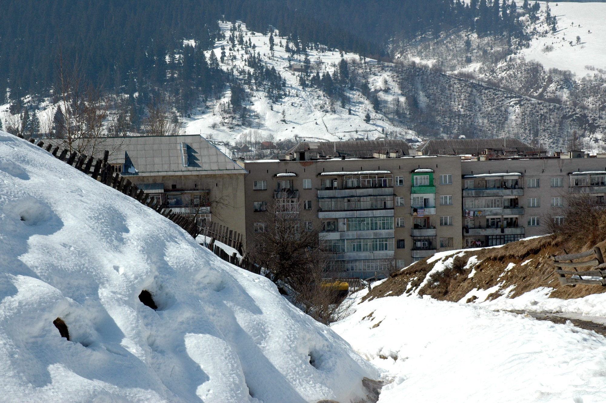 Mizhhiria (Zakarpattia Oblast, Ukraine)